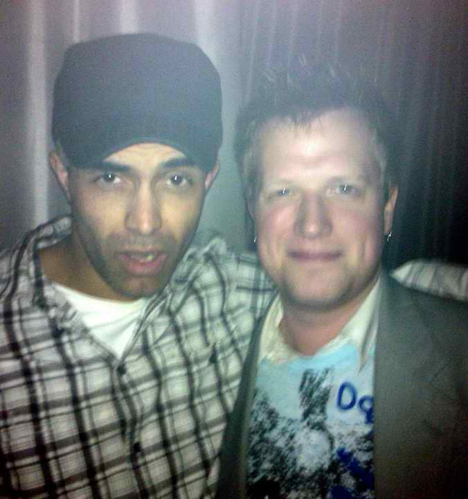 DJ Ben Blade and Lutzenkirchen at Bleu Detroit. March 2011.